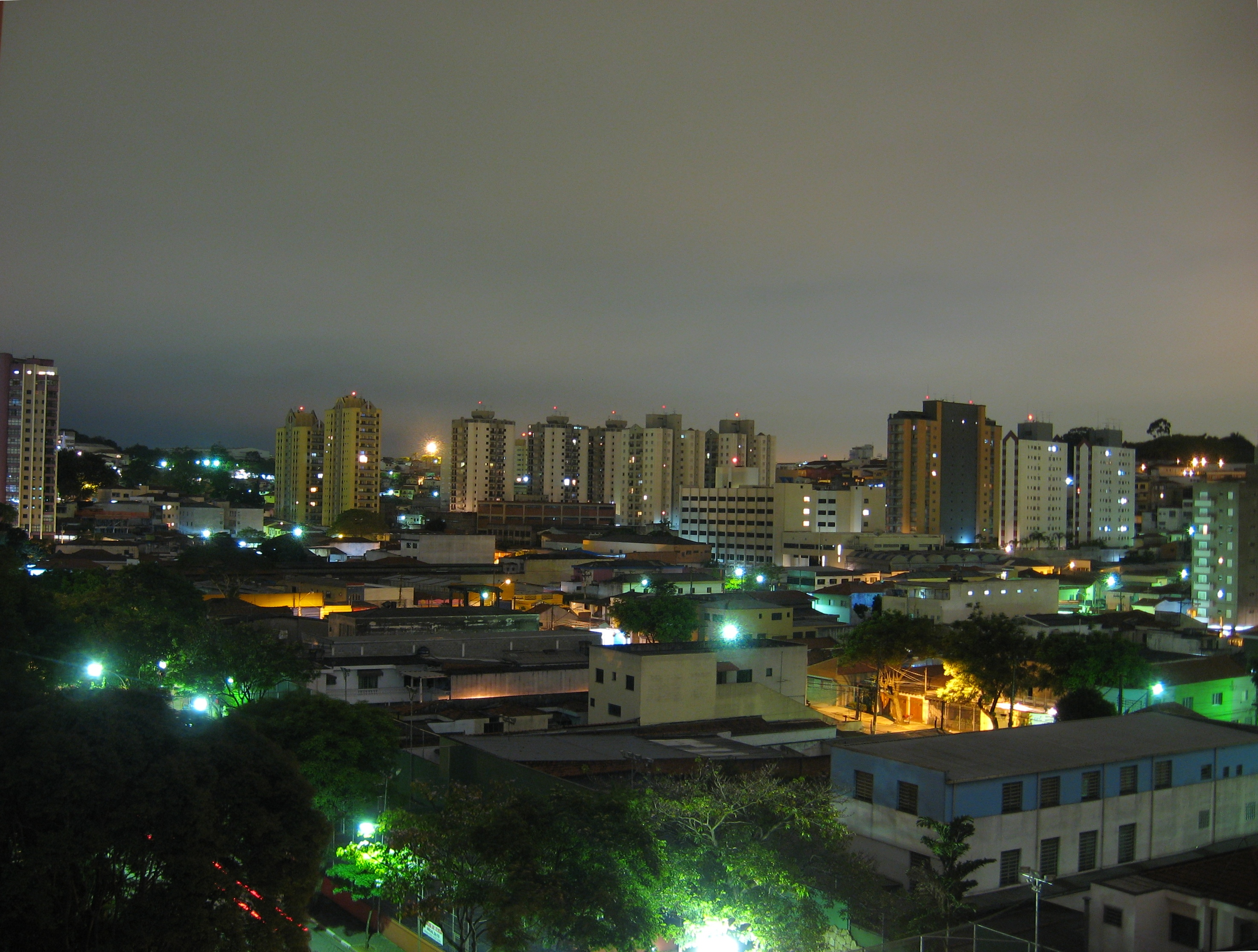 Night view of Casa Verde neighbourhood, São Paulo City, Brazil.